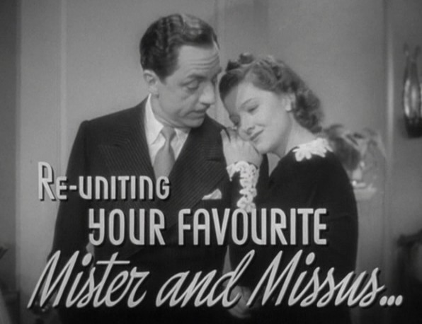 Cropped screenshot of William Powell and Myrna Loy from the trailer for the American film Another Thin Man (1939).